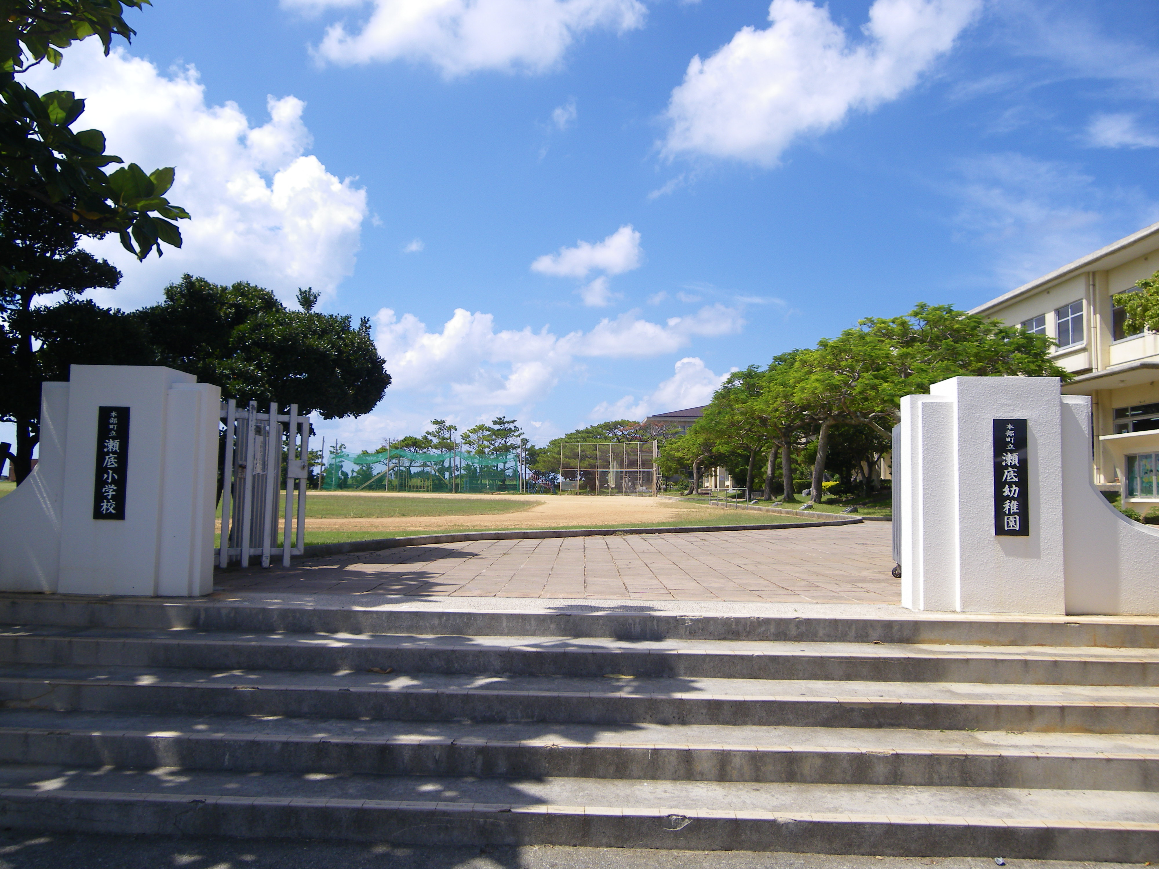 Sesoko Elementary School